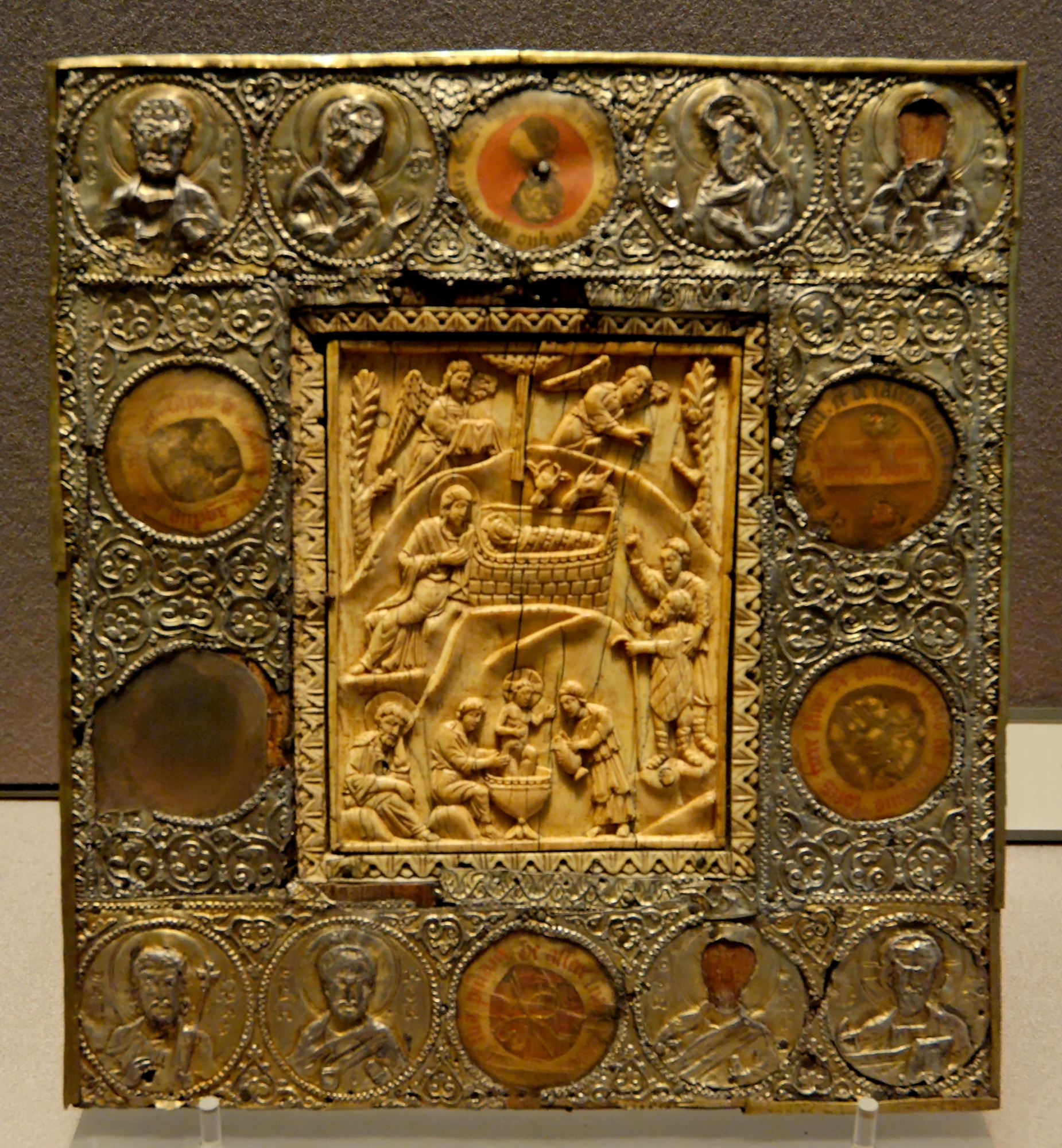 Reliquary with icon of the Nativity. Frame from Byzantium (11th-12th century), ivory panel from Venice? (12th-13th century), transformed into a reliquary in Germany (14th-15th century). Gilded silver over a core of wood, ivory and horn.